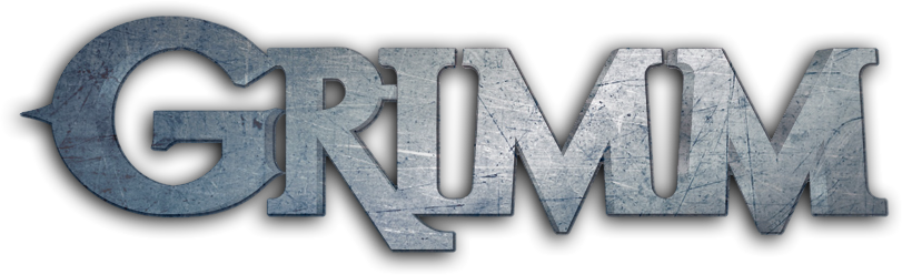 Logo of the US TV series Grimm